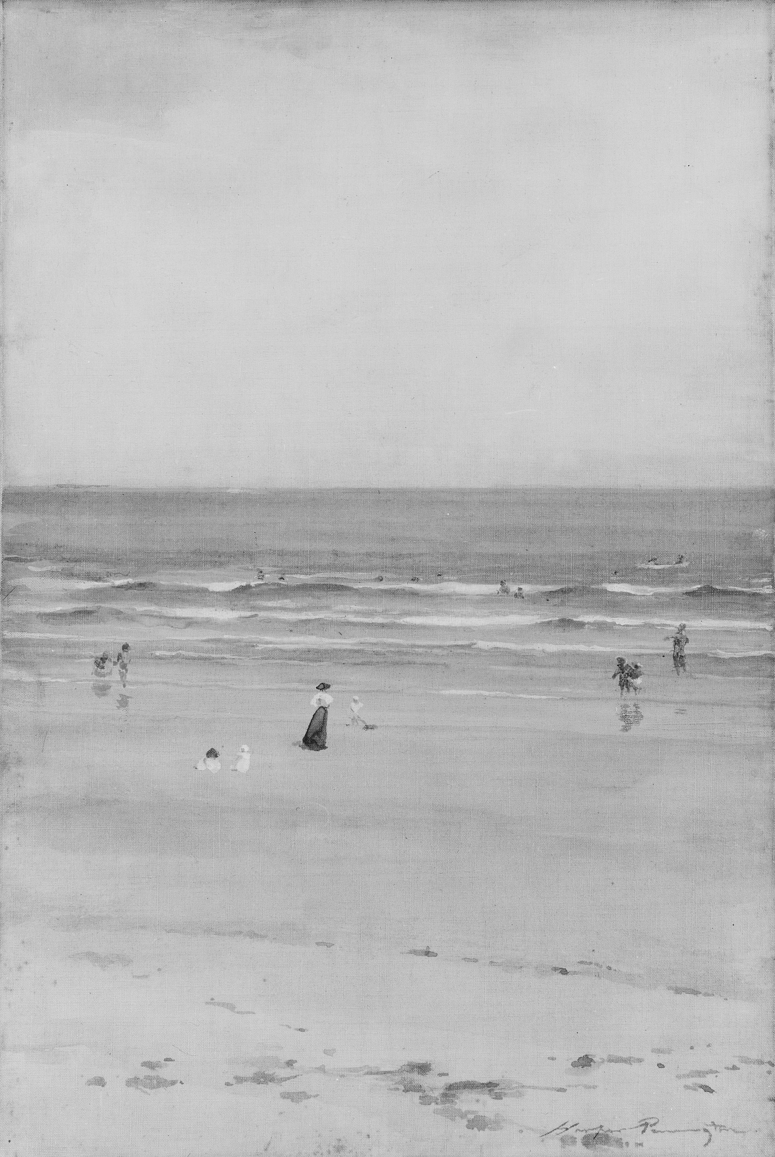 Watercolor; Drawings